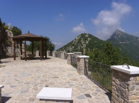 Mountain pass